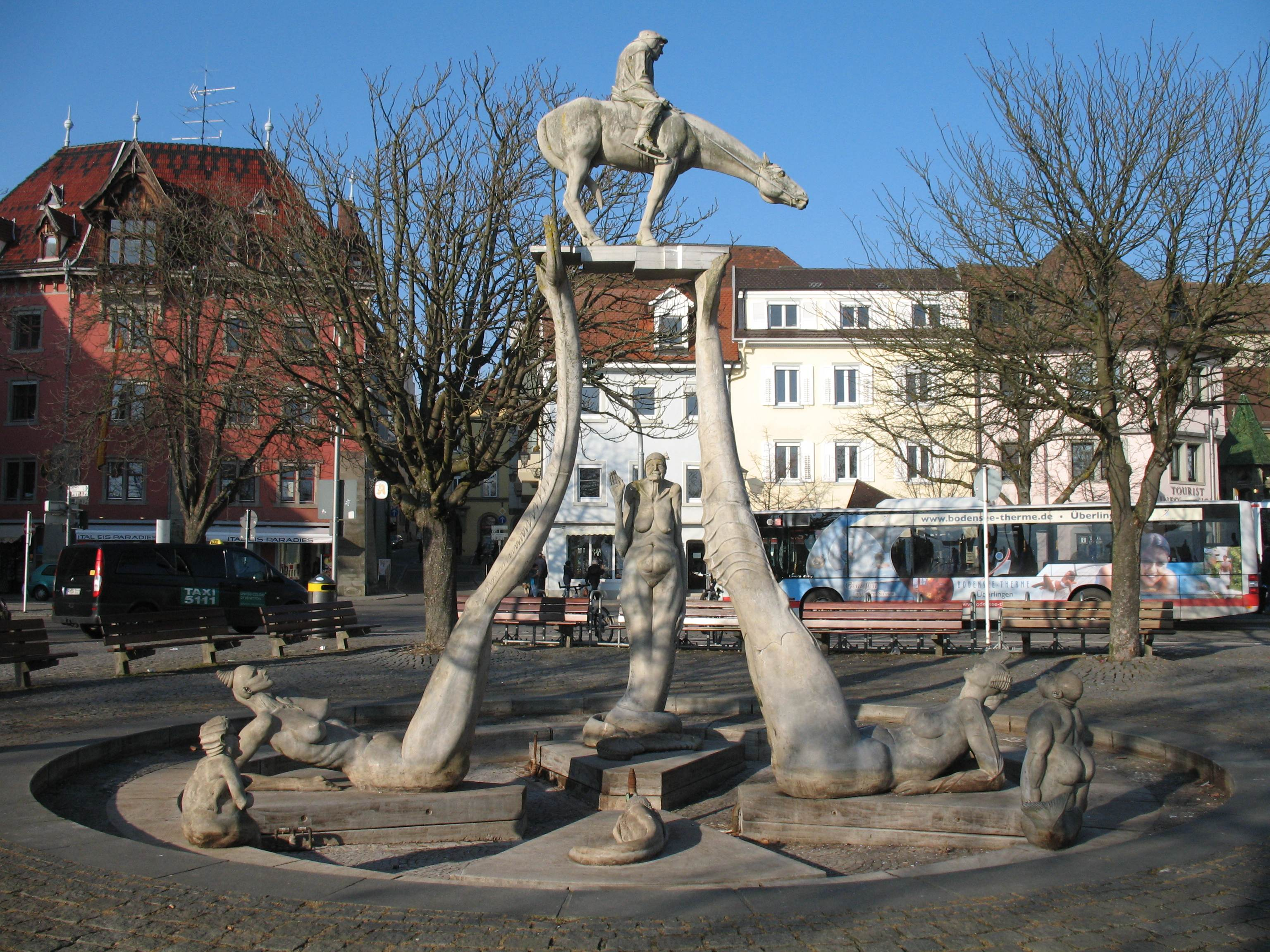 Fountain by Peter Lenk in Überlingen in Baden-Württemberg, Germany